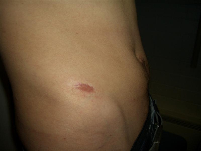 This is a hypertrophic scar on the ilium of Dreamer.redeemer pelvis. He got it when clipped a motorcycle on his longboard (the same motorcycle that had just been towing him, coincidentally. whoops!). He took the picture. (he initially thought this was a keloid scar, but was wrong.)